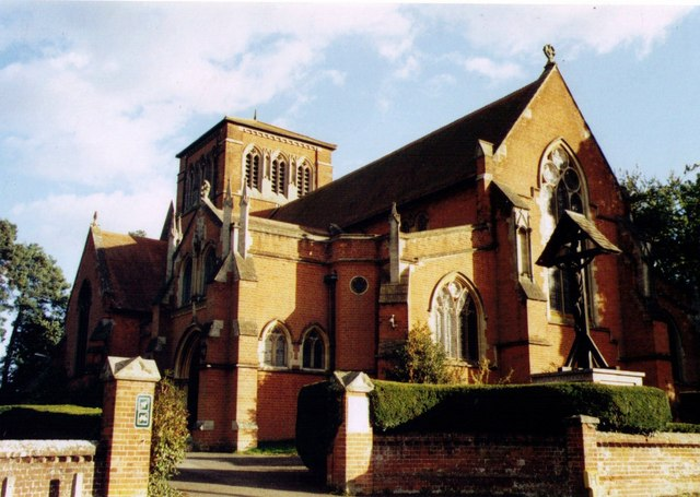 All Souls' parish church, South Ascot, Berkshire, seen from west-northwest